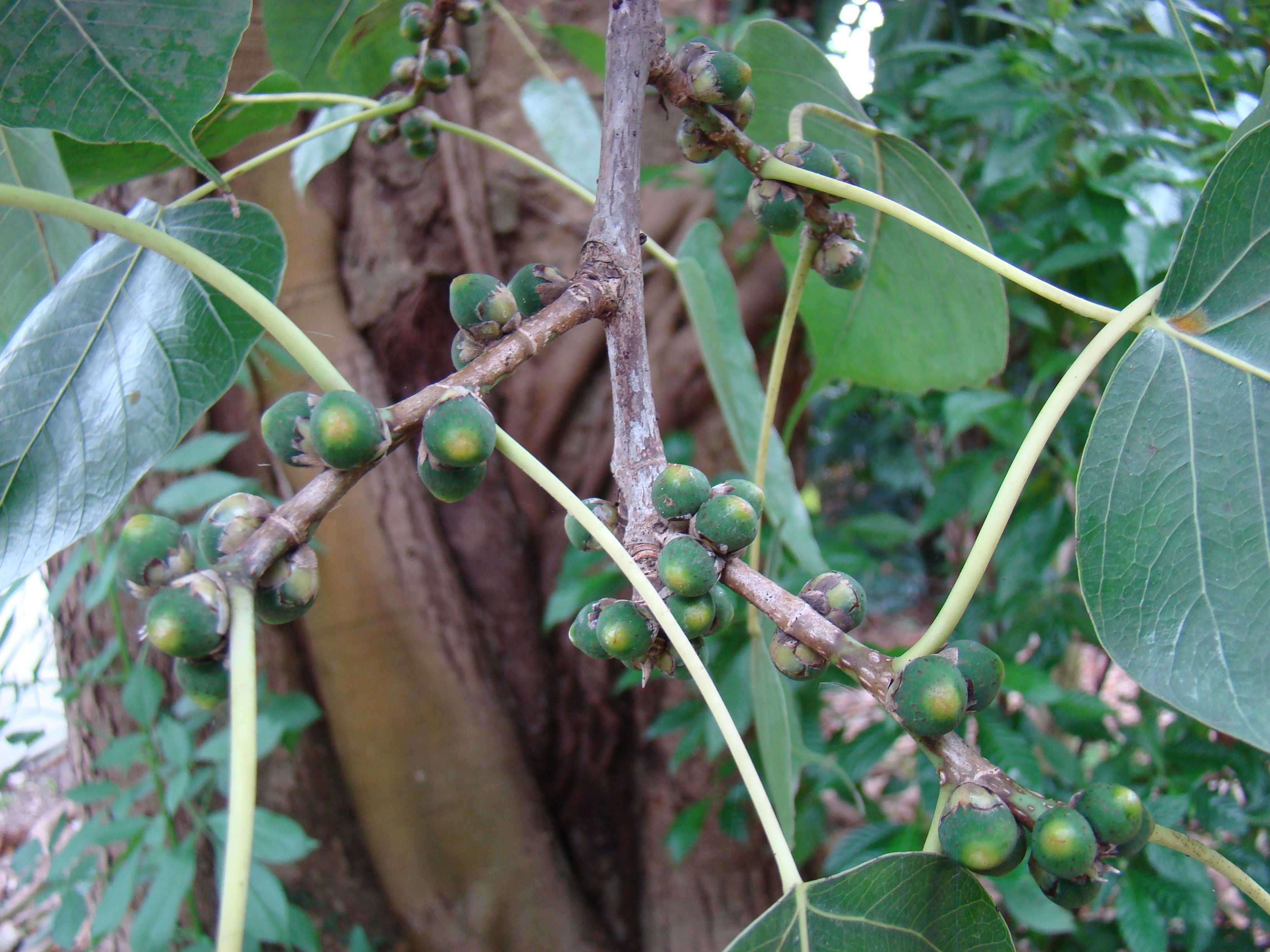 Immature fruits on the Sacred Fig (Ficus religiosa) tree in the Flamingo Gardens, Davie, Florida.